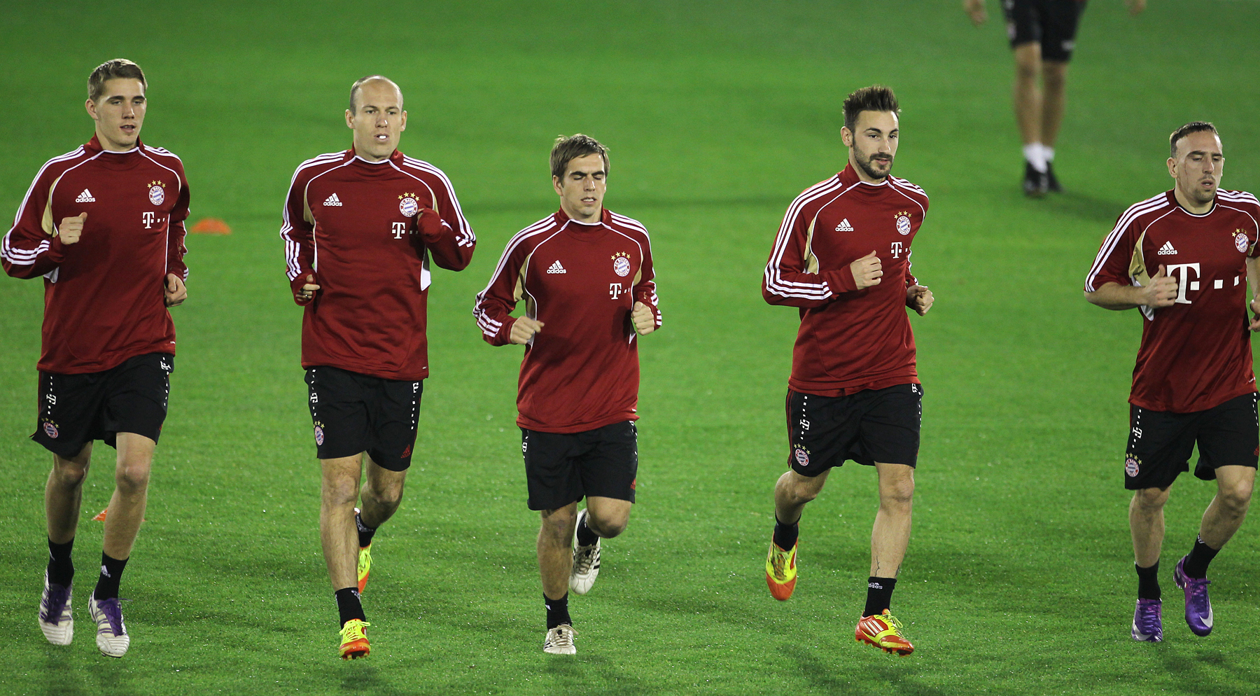 Members of the Bayern Munich Football Club attends a training session at the ASPIRE Academy for Sports Excellence. Pic by Mohan